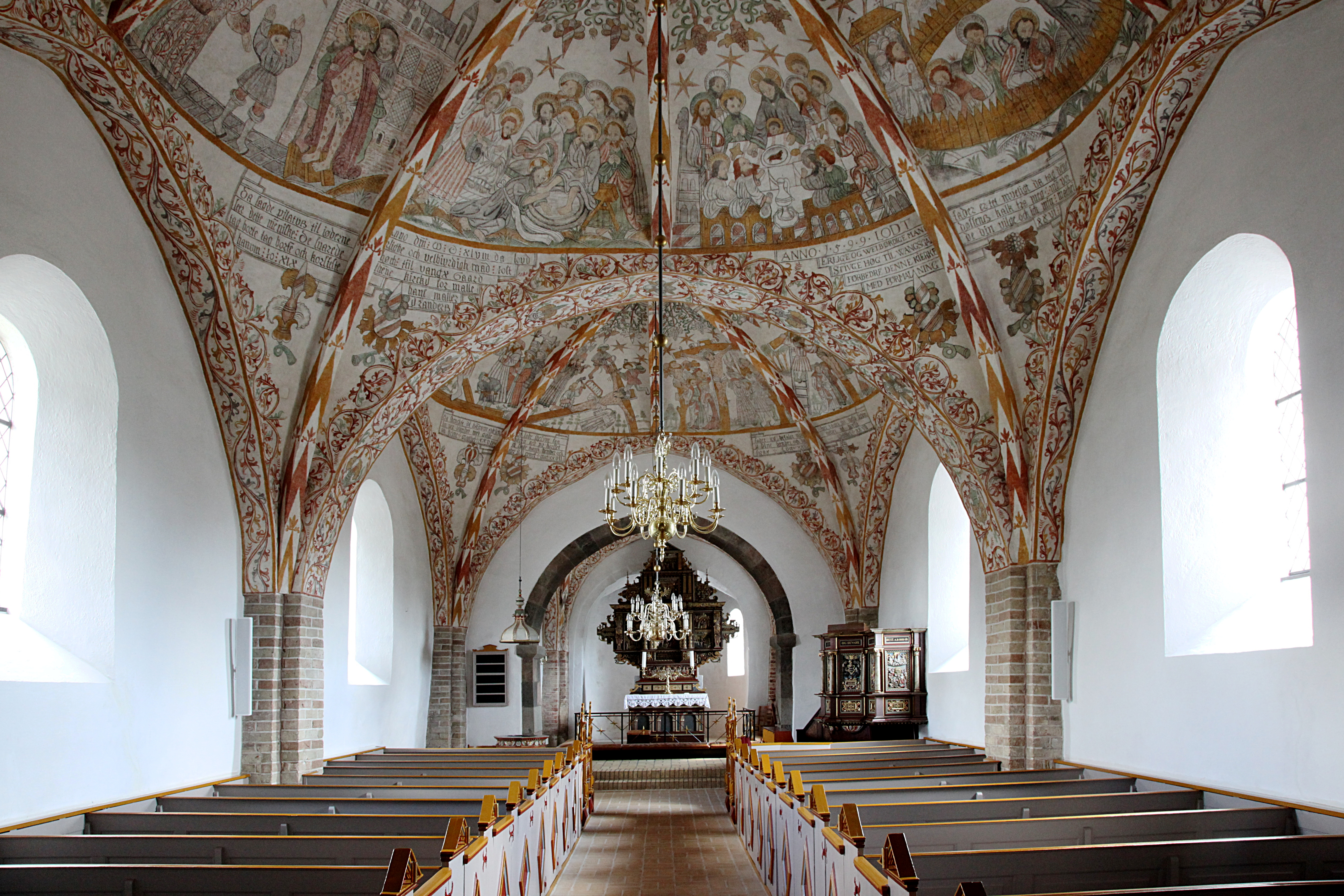 Interior in Sulsted Kirke just north of Aalborg, Denmark